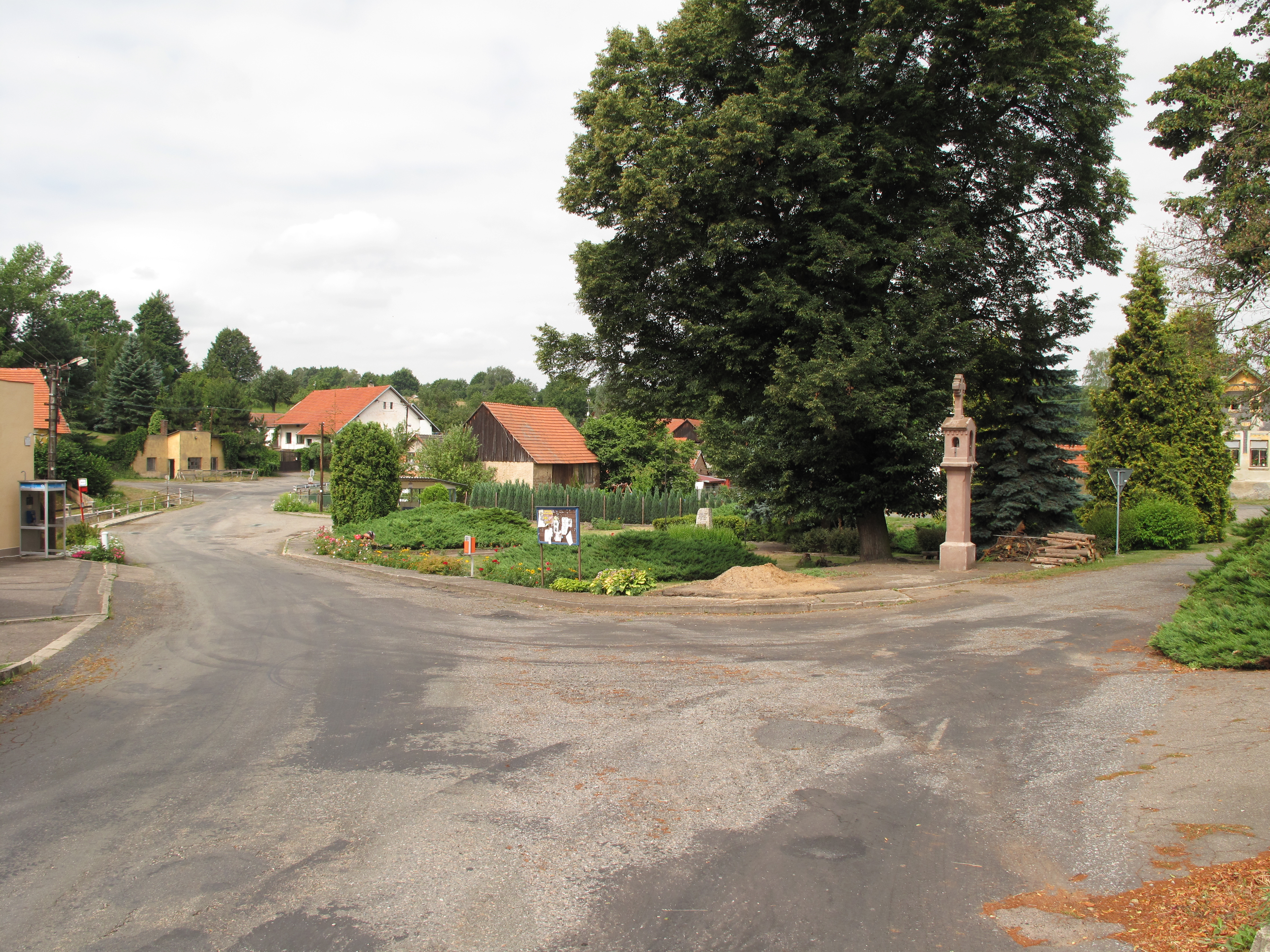 This photograph was taken within the scope of the second year of the 'Czech Municipalities Photographs' grant.